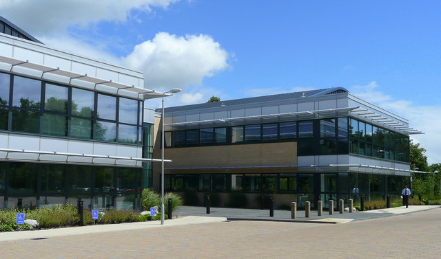 Offices in Capital Park This recently-completed block is on the campus of the Fulbourn Hospital, now known as Capital Park.